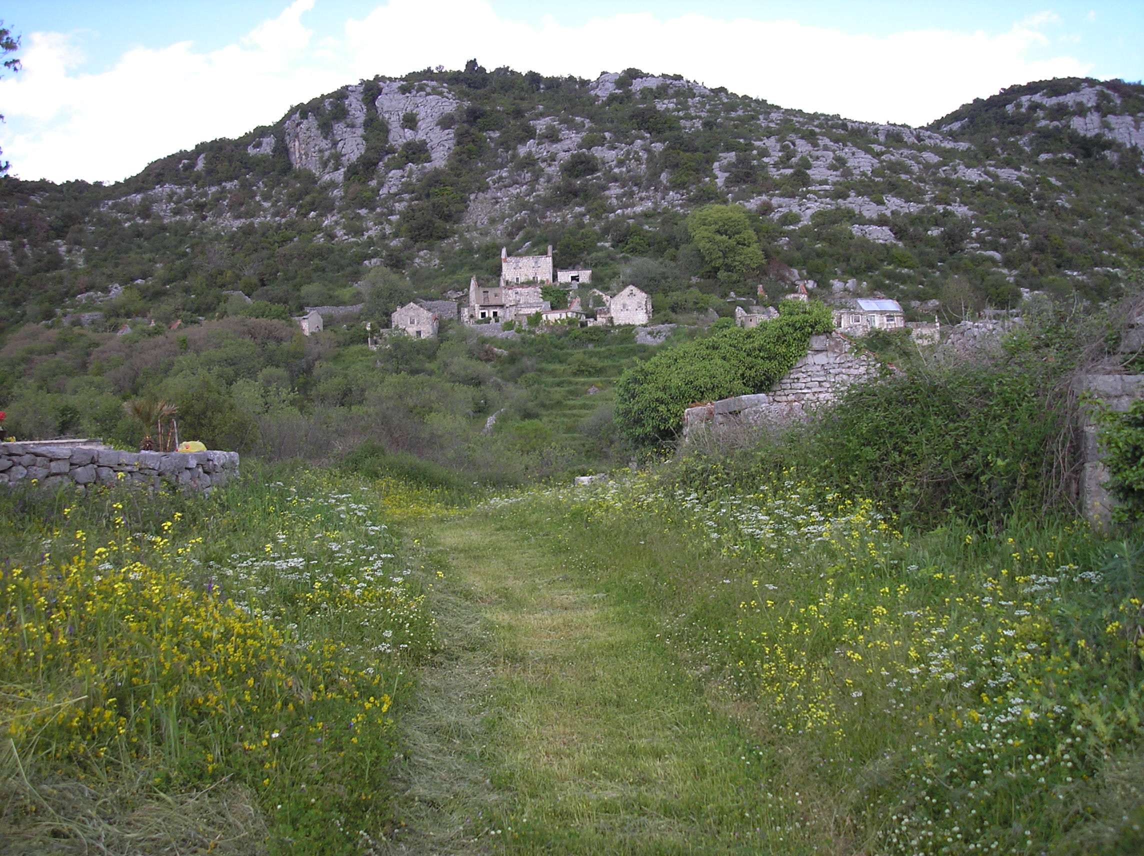 Village Začula, panoramic view.